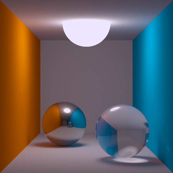 Box scene with global illumination using path tracing, large number of samples.